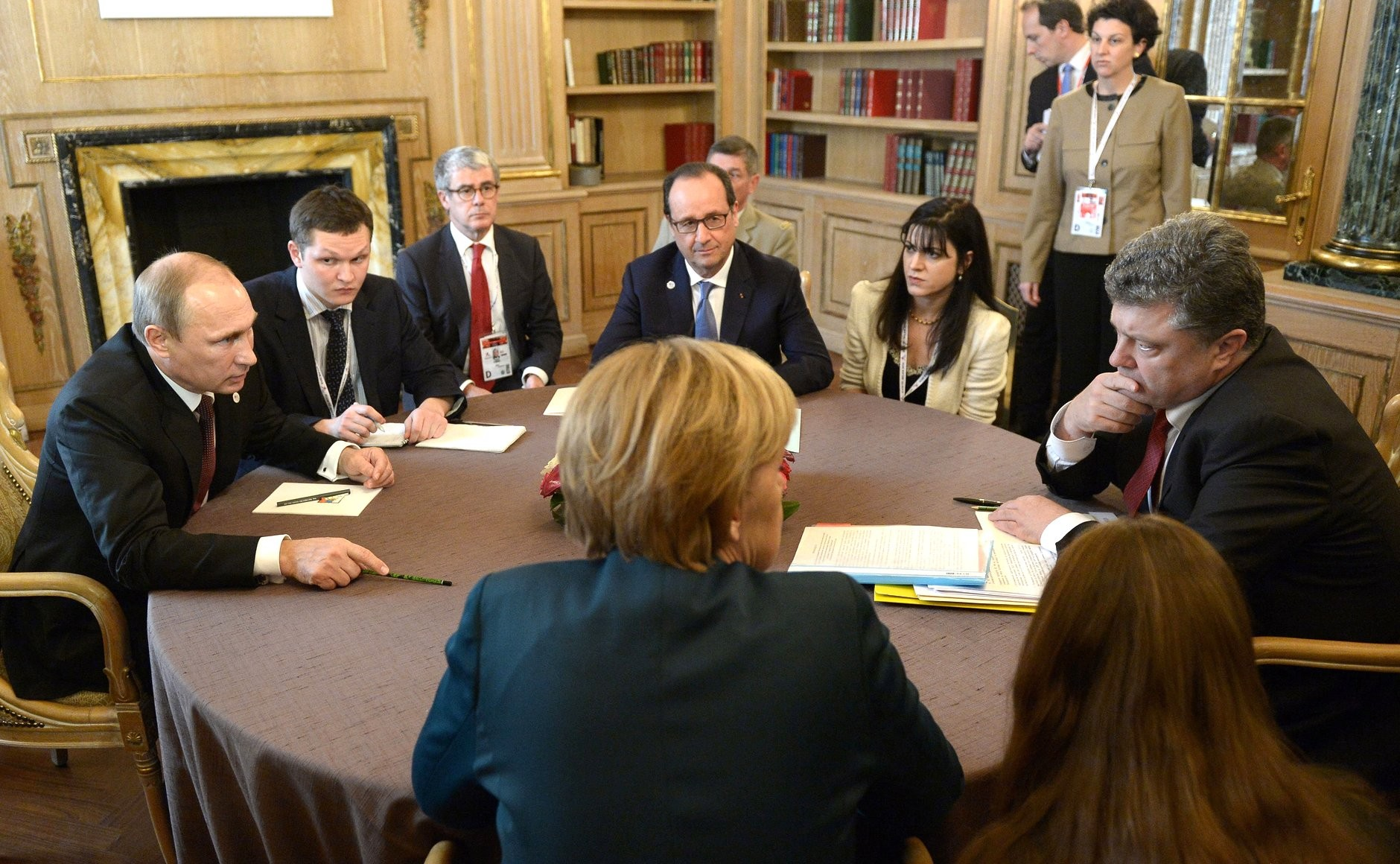 Vladimir Putin met in Milan with President of Ukraine Petro Poroshenko, Federal Chancellor of Germany Angela Merkel and President of France Francois Hollande